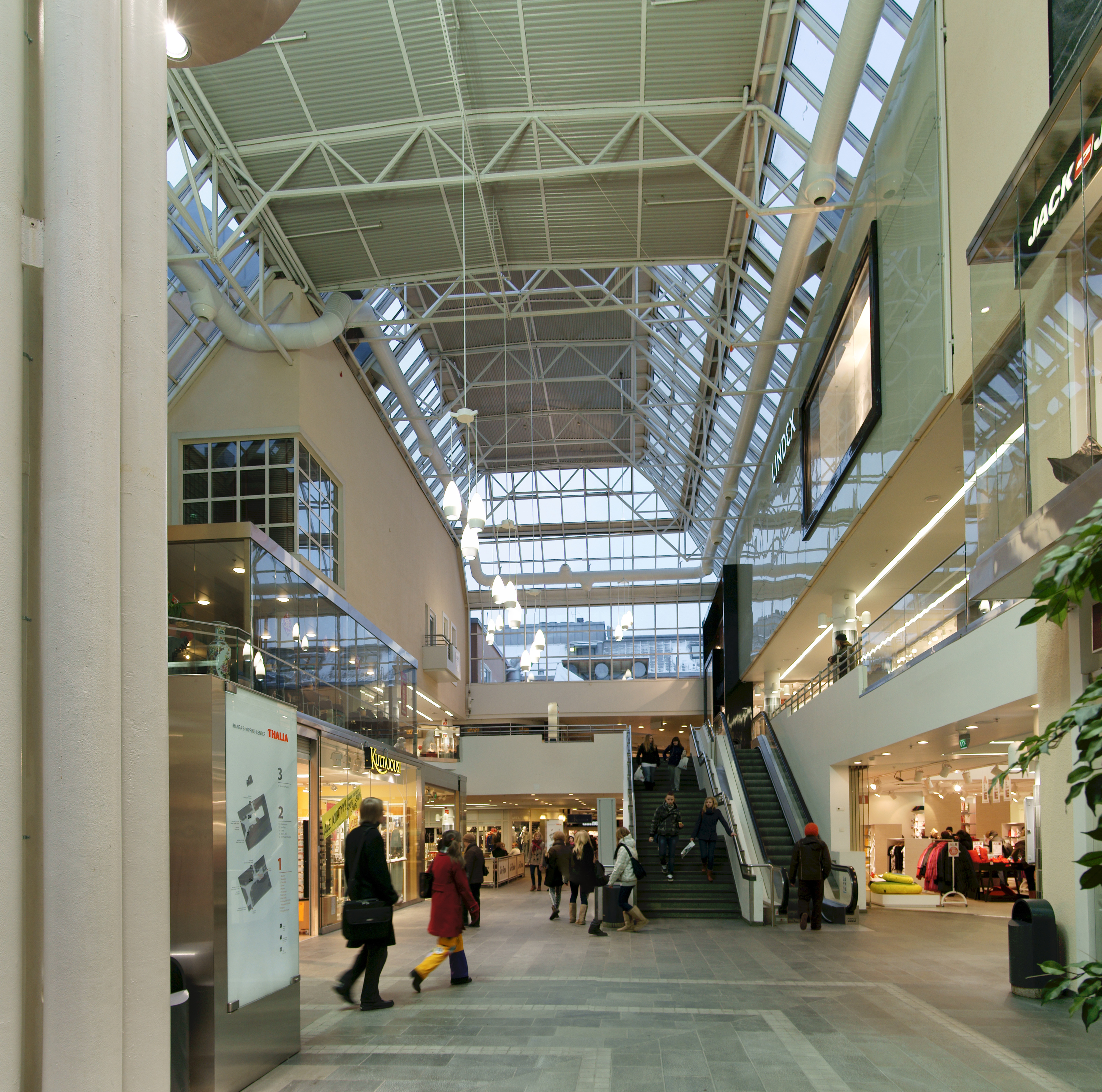 Photo from Hansa shopping centre, Turku.